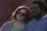 A very low res snip of the duo Ill Chemistry from a self made YouTube video, here